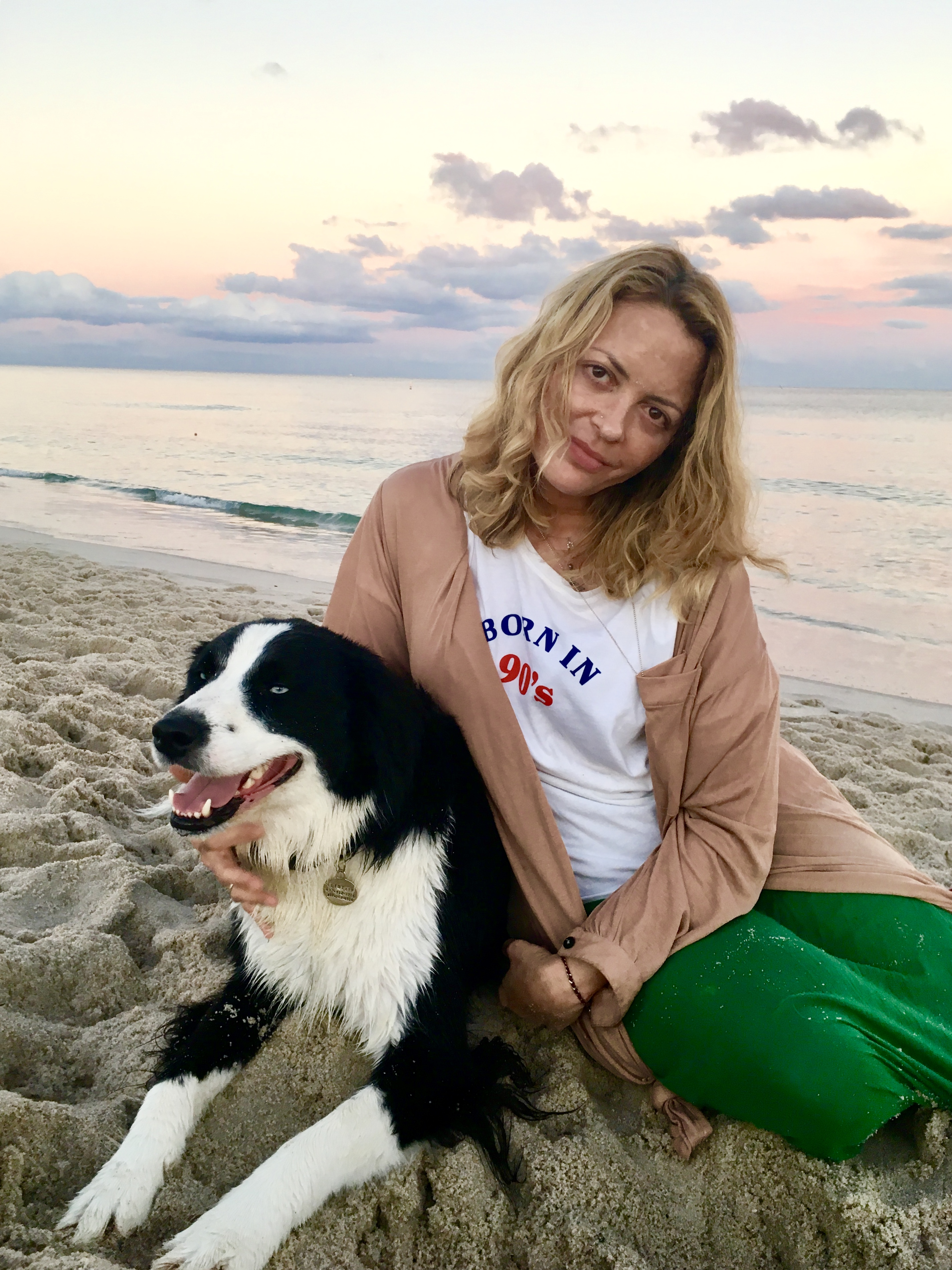 Elizabeth Wurtzel on the beach with Alistair, her dog